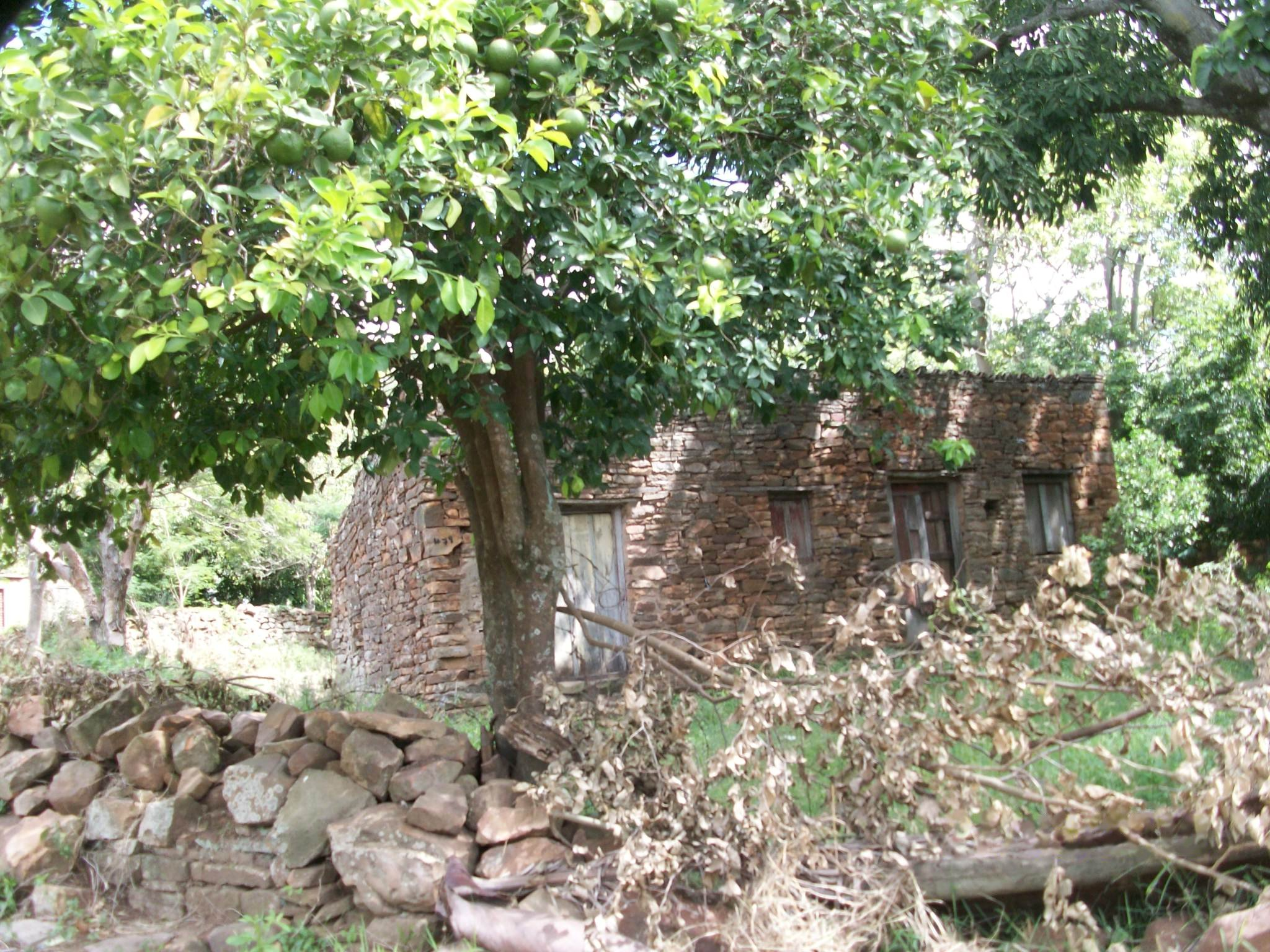 Jlm Melo, Kodak, 14:26, 27 March 2010. 18th-19th century old house, city of Itaqui, state of Rio Grande do Sul, Brazil (demolished in the year of 2011).